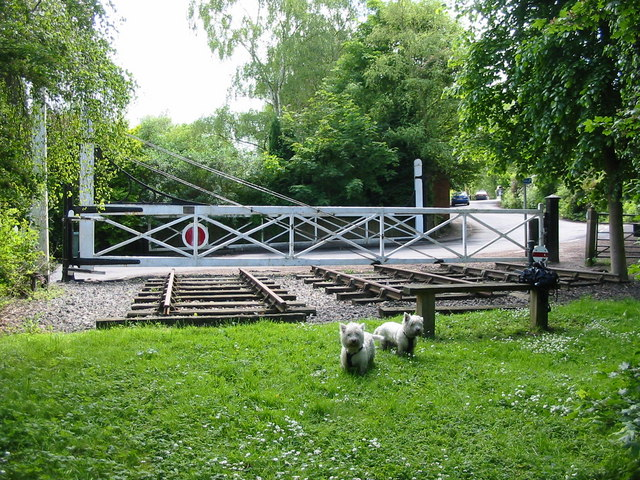 Jackfield Level Crossing. This level crossing at Jackfield is on the route of the former Severn Valley Railway that ran between Worcester and Shrewsbury through the Ironbridge Gorge. This part of the railway is long gone but the crossing gates have been preserved as a feature on what is now a cycling trail.